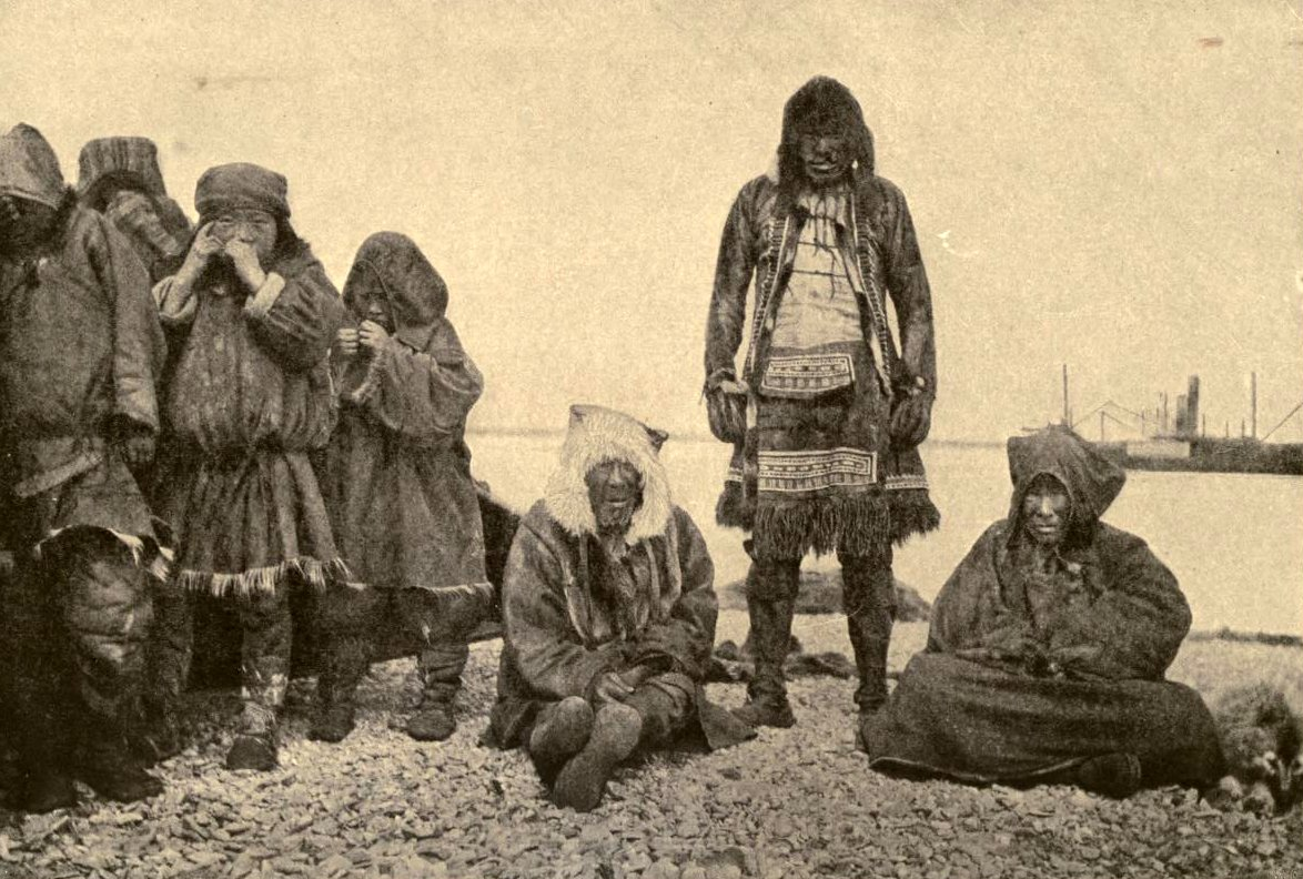 The photo shows a Chukchi, or Chukchee, family: a man, old man, old woman, and children lined up for a photo neatr the shore, with a ship in the background. This photo is from Anadyr (Novo-Mariinsk) Russia in summer 1906. It is from a book describing a hunting/specimen-collecting trip